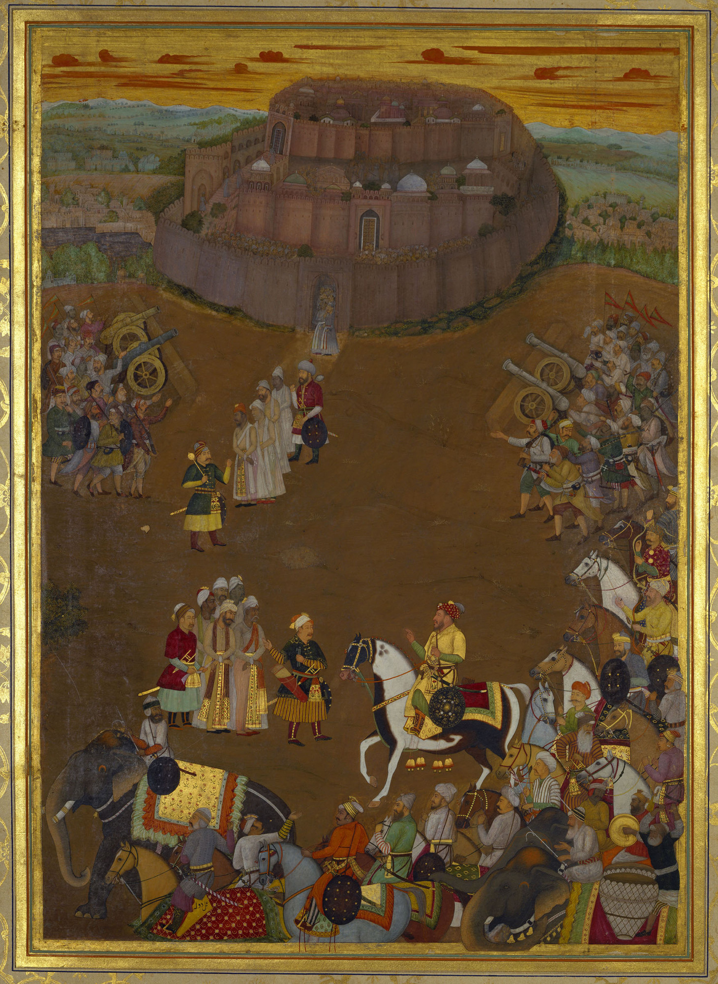 Illustrations from the 1636 Padshahnama of Shah Jahan showing Moghul Soldier & Civilian Costume. Illustrations to the text of Abdul Hamid Lahori